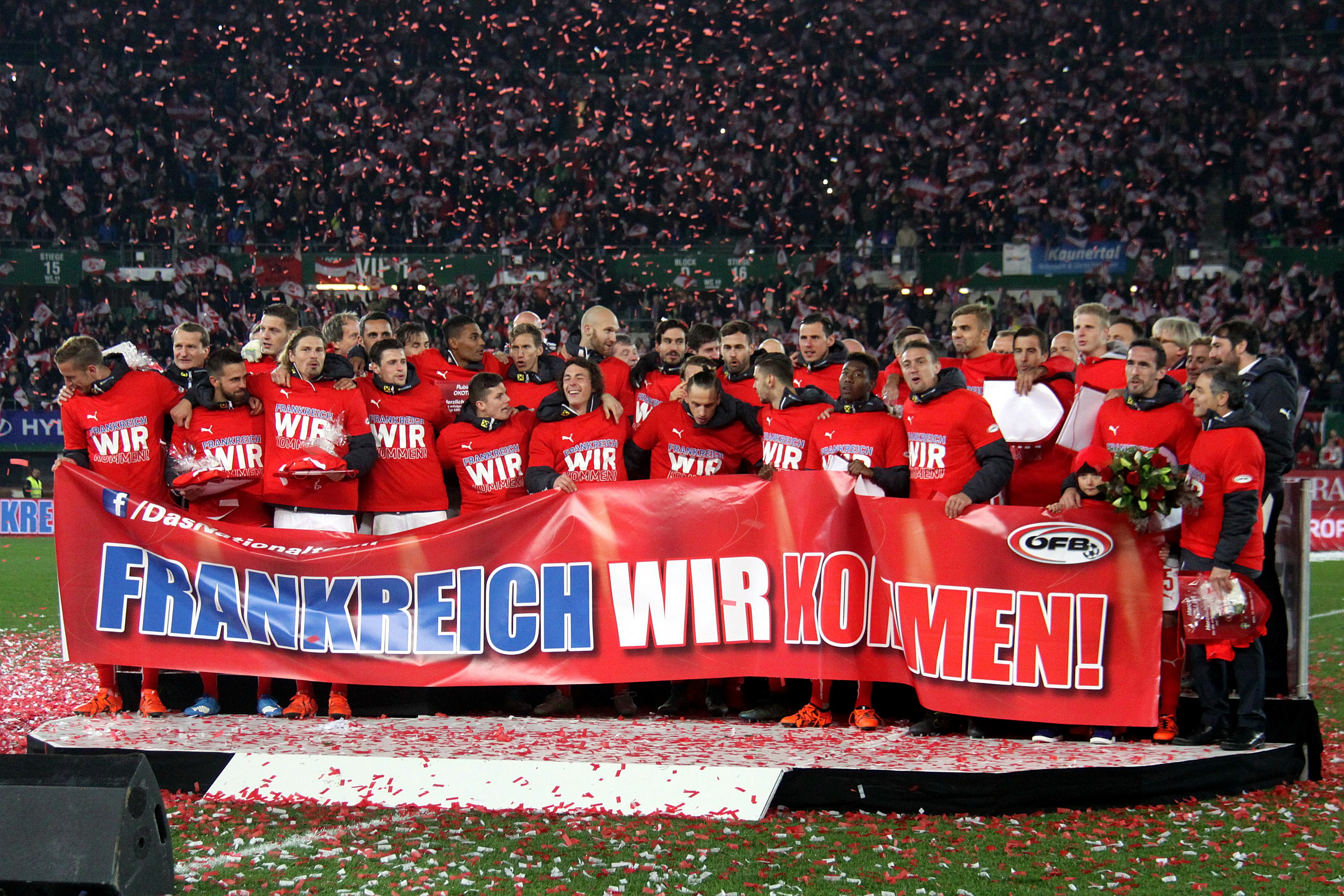 UEFA Euro 2016 qualifying, Group G – Austria (red shirts) vs. Liechtenstein (blue shirts) 3–0 (1–0) on 2015-10-12 in Ernst-Happel-Stadion, Vienna – The photo shows the honoring of the entire team of Austria for the successful qualification for the European Championship.